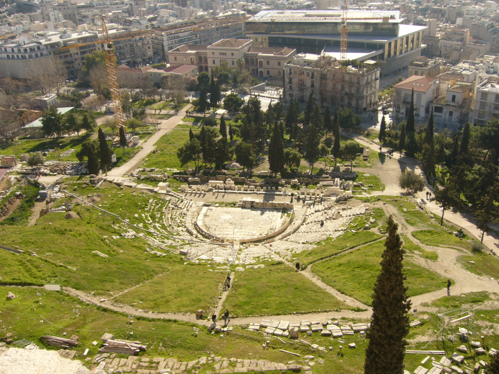 Acropolis theatre from hill Taken by Adéla Pokorná